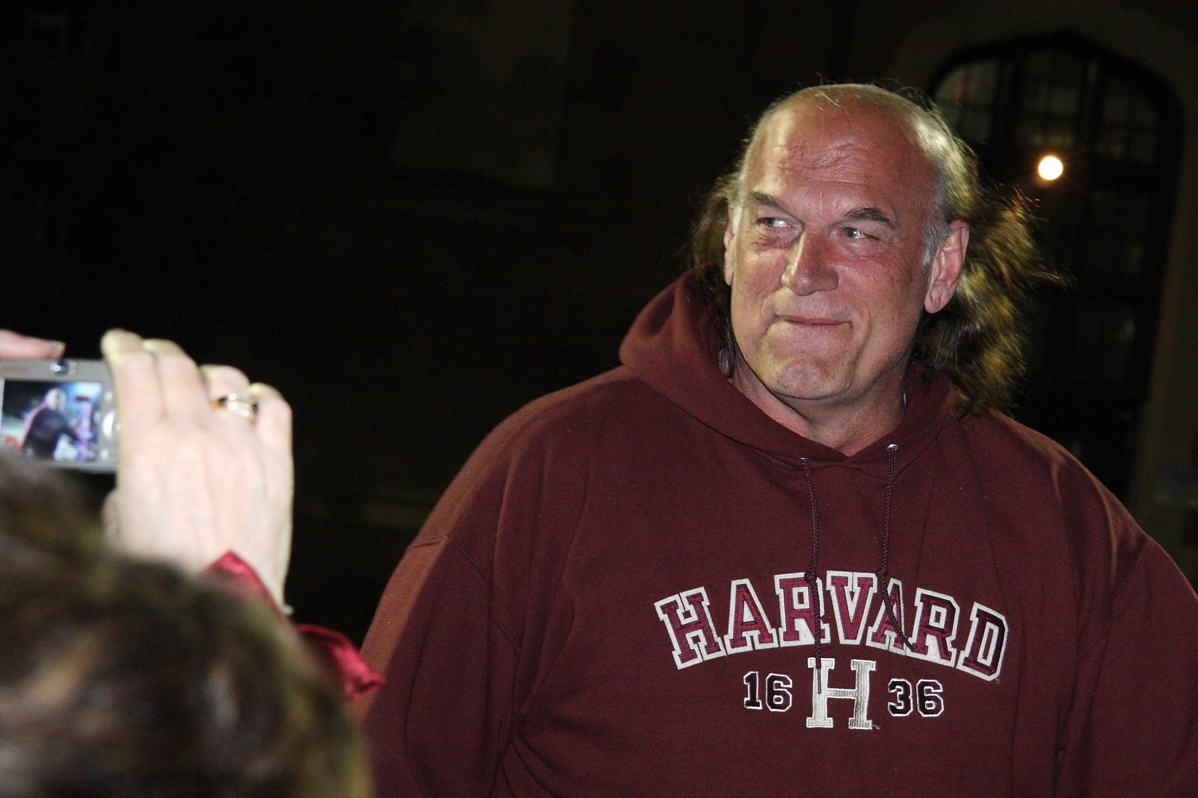 Premiere of "Woodshop" by Pete Coggin.